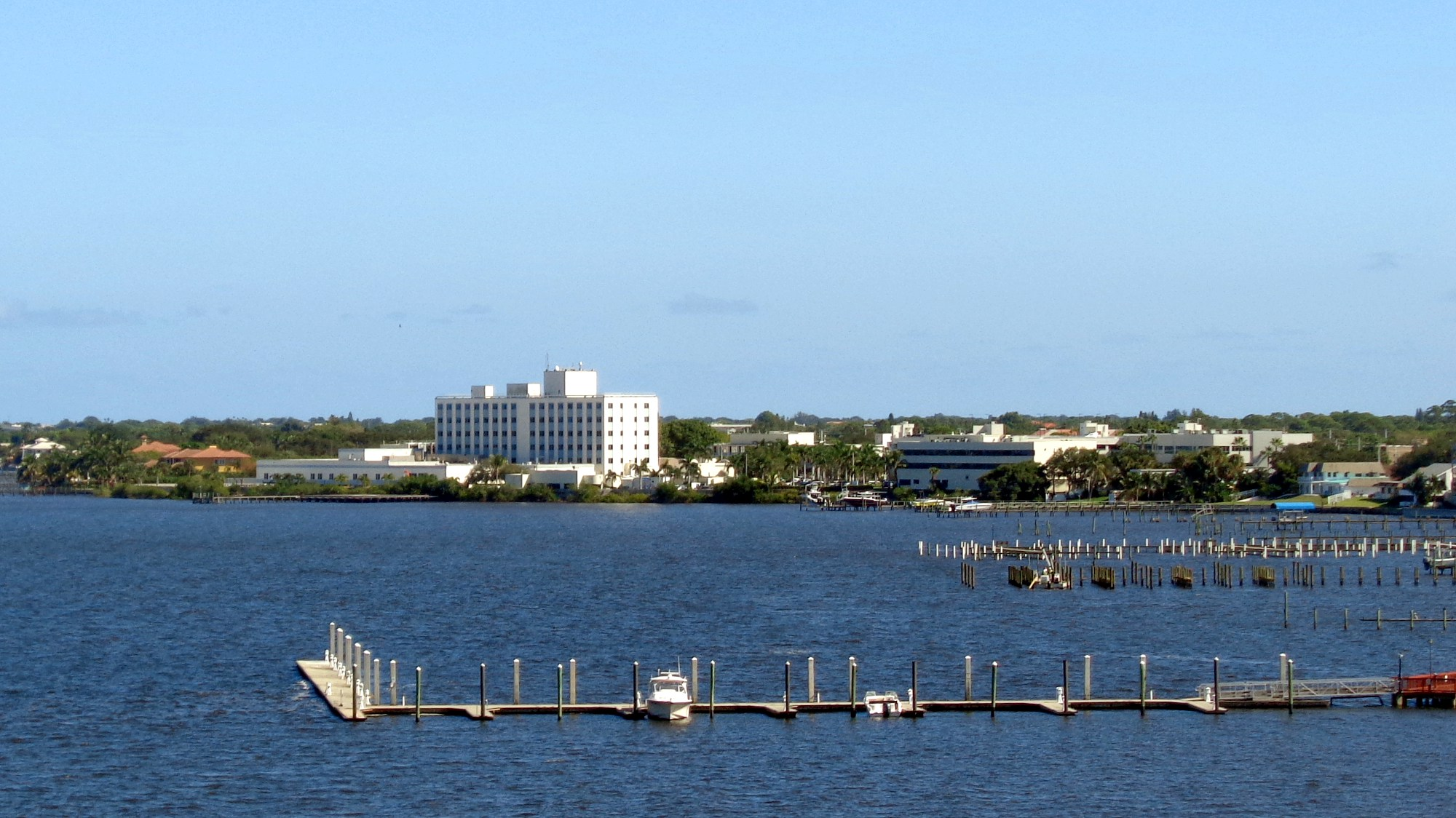 Downtown Stuart, Florida. The view is looking Southeast from Rosevelt Bridge